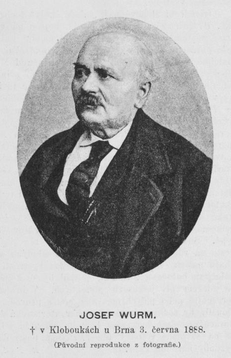 Portrait of Josef Wurm (1817-1888), Czech politician.